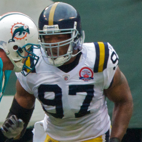 Tight end Anthony Fasano (80) of the Miami Dolphins against the New York Jets at Giants Stadium in November 2009. This file has been extracted from another file: Anthony Fasano Jets-Dolphin game, Nov 2009 - 040.jpg